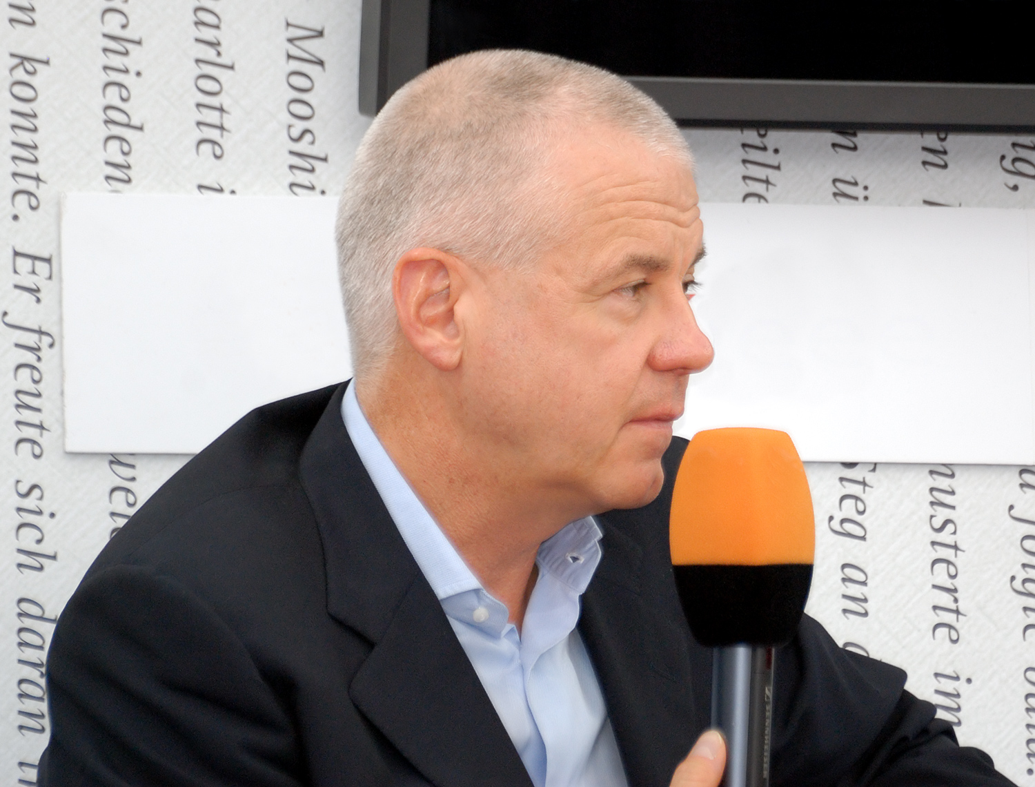 This image shows Matthias Politycki, a German writer, in the year 2008.